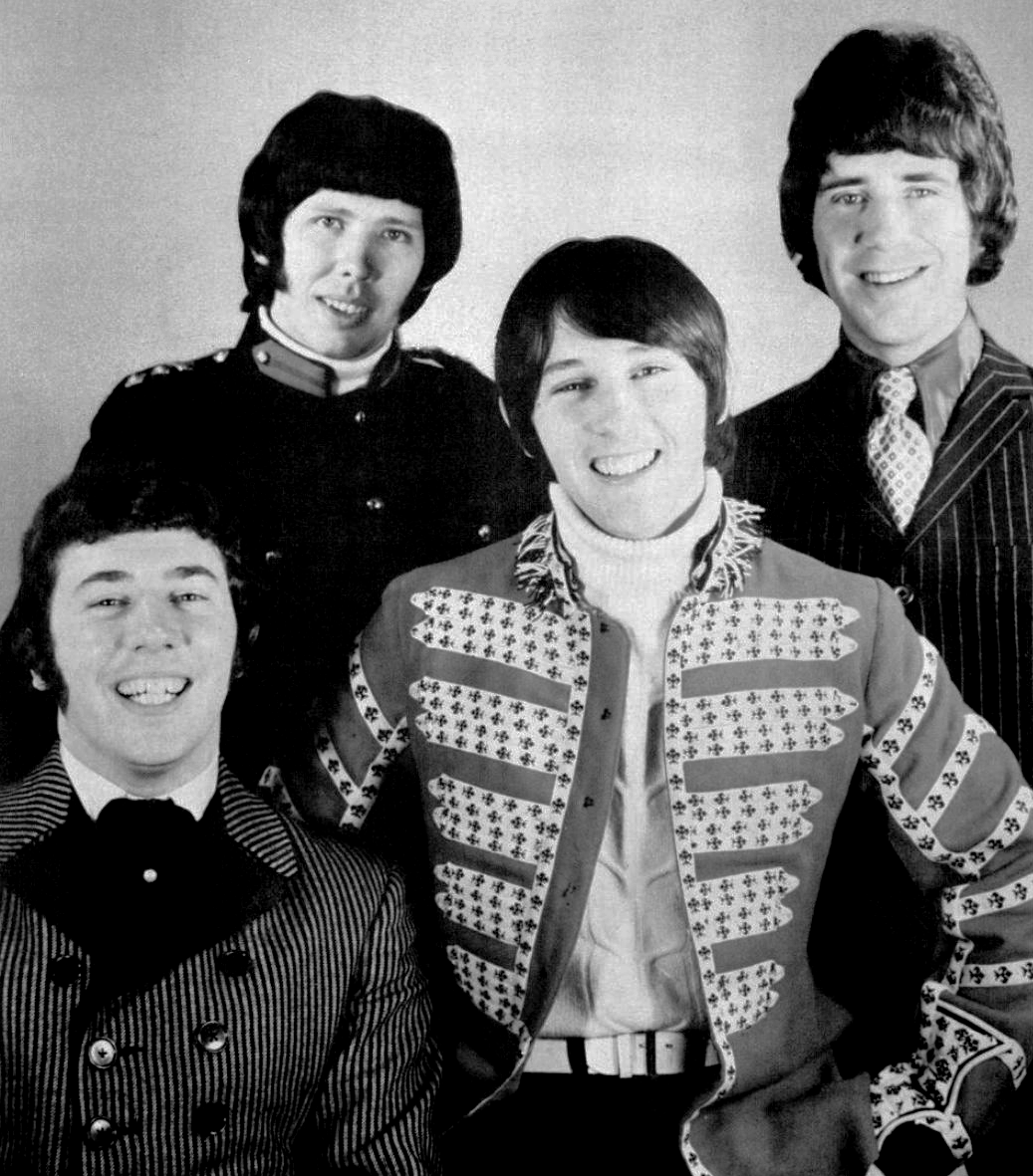 Trade ad for The Tremeloes's single "My Little Lady". To better adapt it to his respective Wikipedia article, the ad was cropped and cleaned in a graphics editing program. The original can be viewed at the source below.